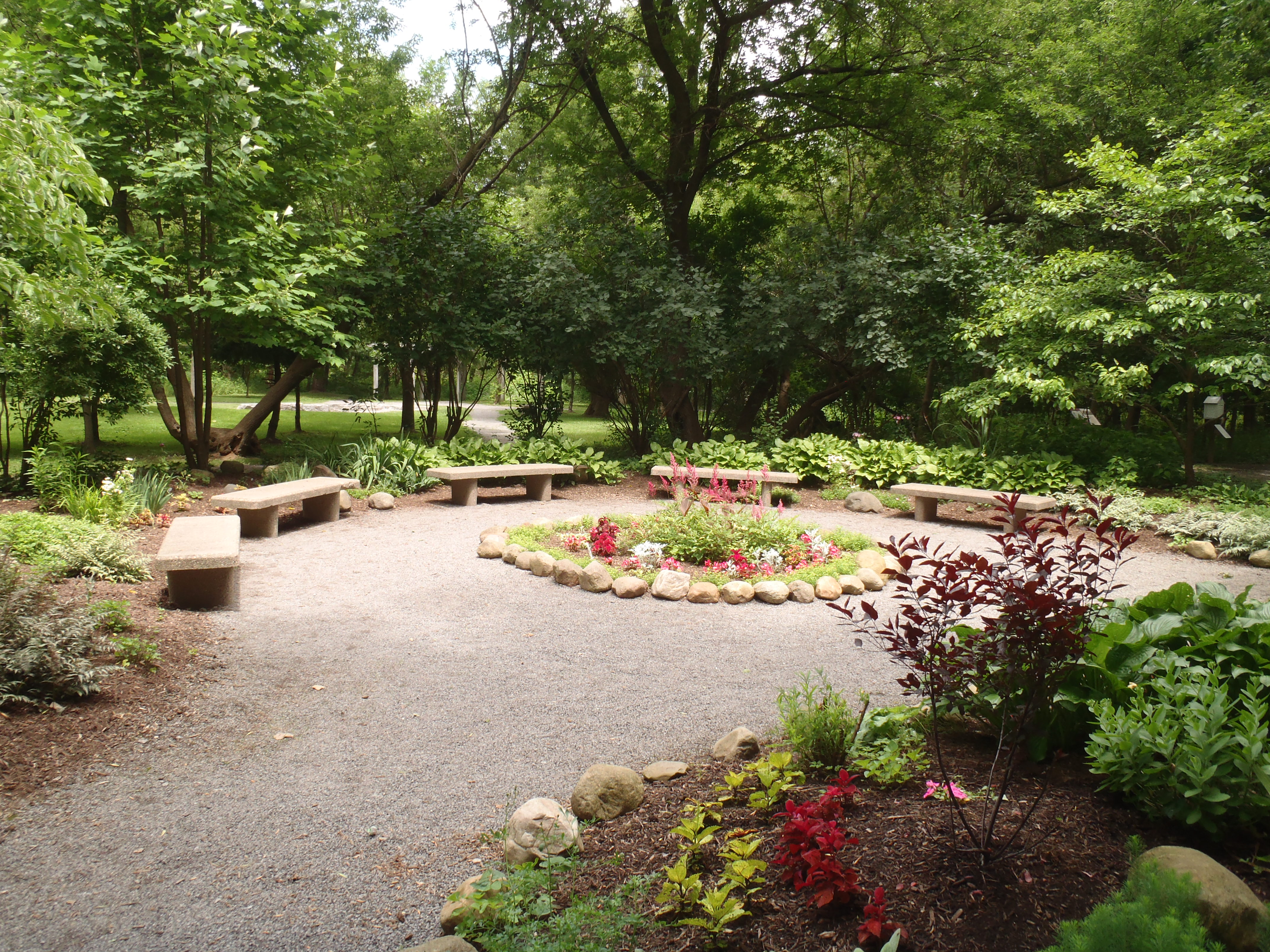 Garden along the along the Charles E. Burchfield Nature & Art Center 2001 Union Road, West Seneca, New York 14224